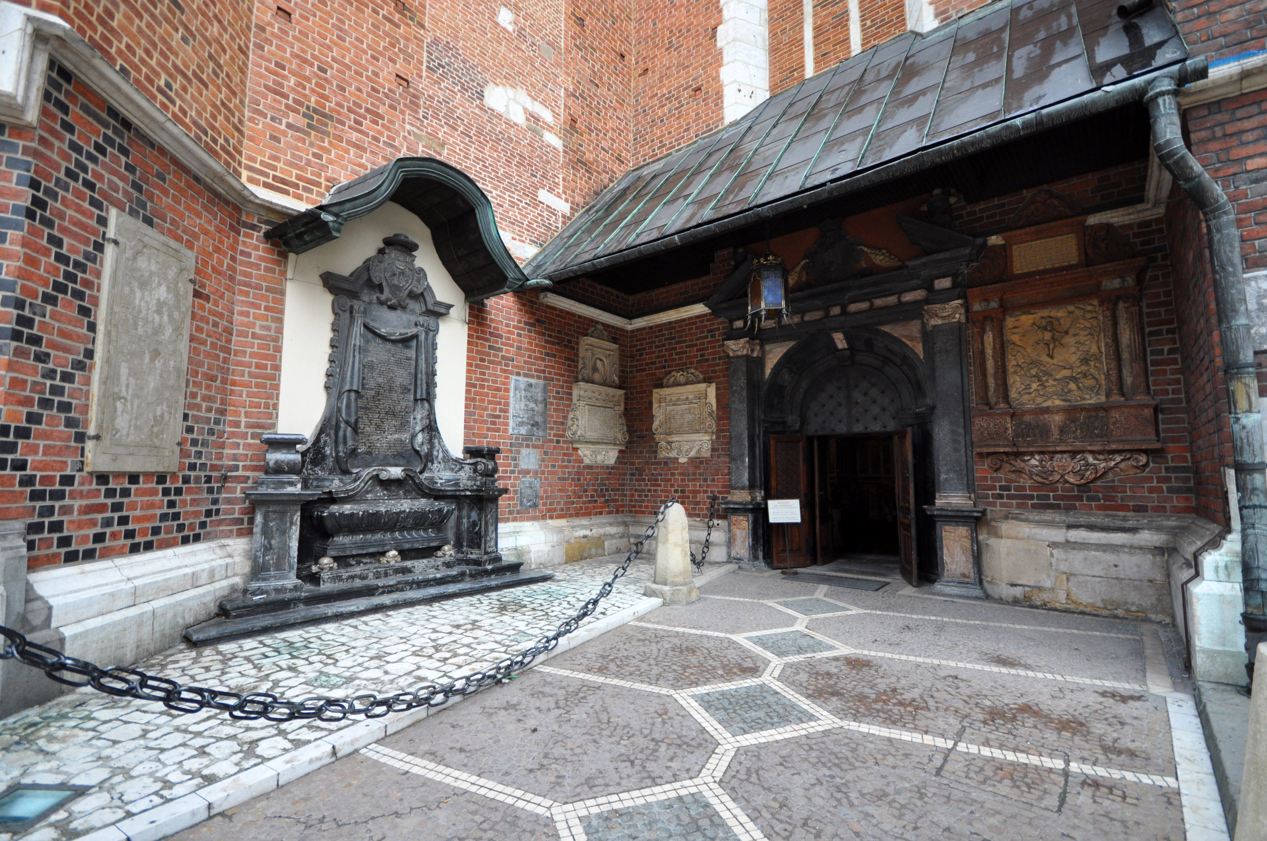 Church of Our Lady Assumed into Heaven (St. Mary's Church) - is a Brick Gothic church re-built in the 14th century (originally built in the early 13th century), adjacent to the Main Market Square in Kraków, Poland. Standing 80 m (262 ft) tall, it is particularly famous for its wooden altarpiece carved by Veit Stoss (Wit Stwosz). Every hour on the half hour, a trumpet signal—called the Hejnał mariacki—is played from the top of the taller of St. Mary's two towers. The plaintive tune breaks off in mid-stream, to commemorate the famous 13th century trumpeter, who was shot in the throat while sounding the alarm before the Mongol attack on the city. The noon-time hejnał is heard across Poland and abroad broadcast live by the Polish national Radio 1 Station. St. Mary's Basilica also served as an architectural model for many of the churches that were built by the Polish diaspora abroad, particularly those like St. Michael's and St. John Cantius in Chicago, designed in the so-called Polish Cathedral style